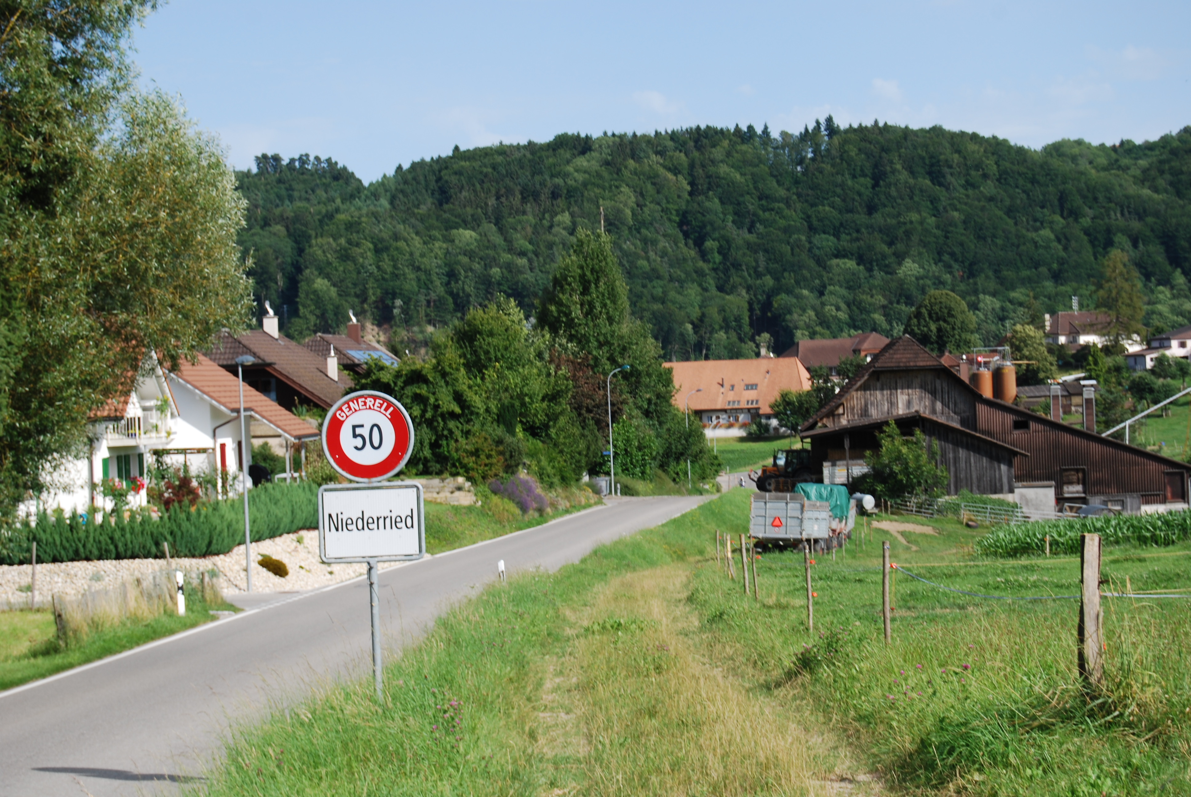 Niederried bei Kallnach, canton of Bern, SwitzerlandEsperanto: Niederried ĉe Kallnach, Kantono Berno, Svislando